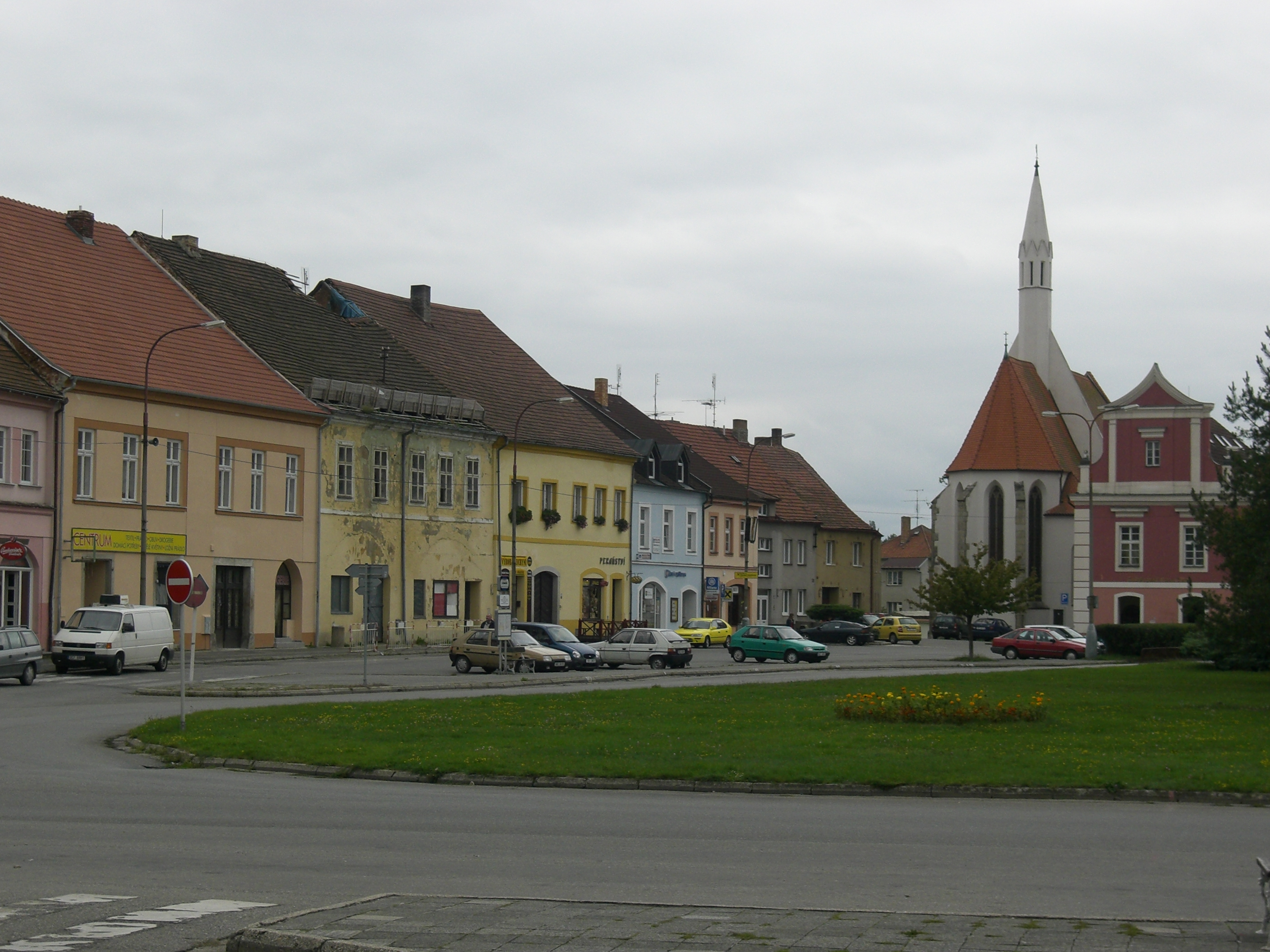 Square in Soběslav, Czech Republic